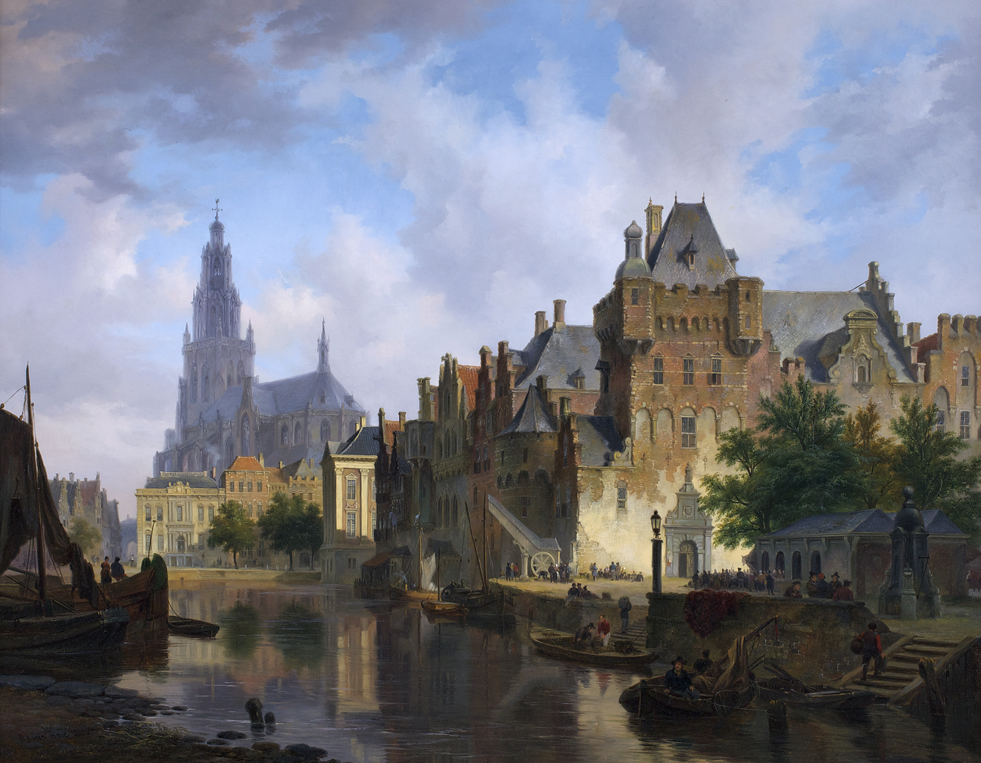 signed b.r.